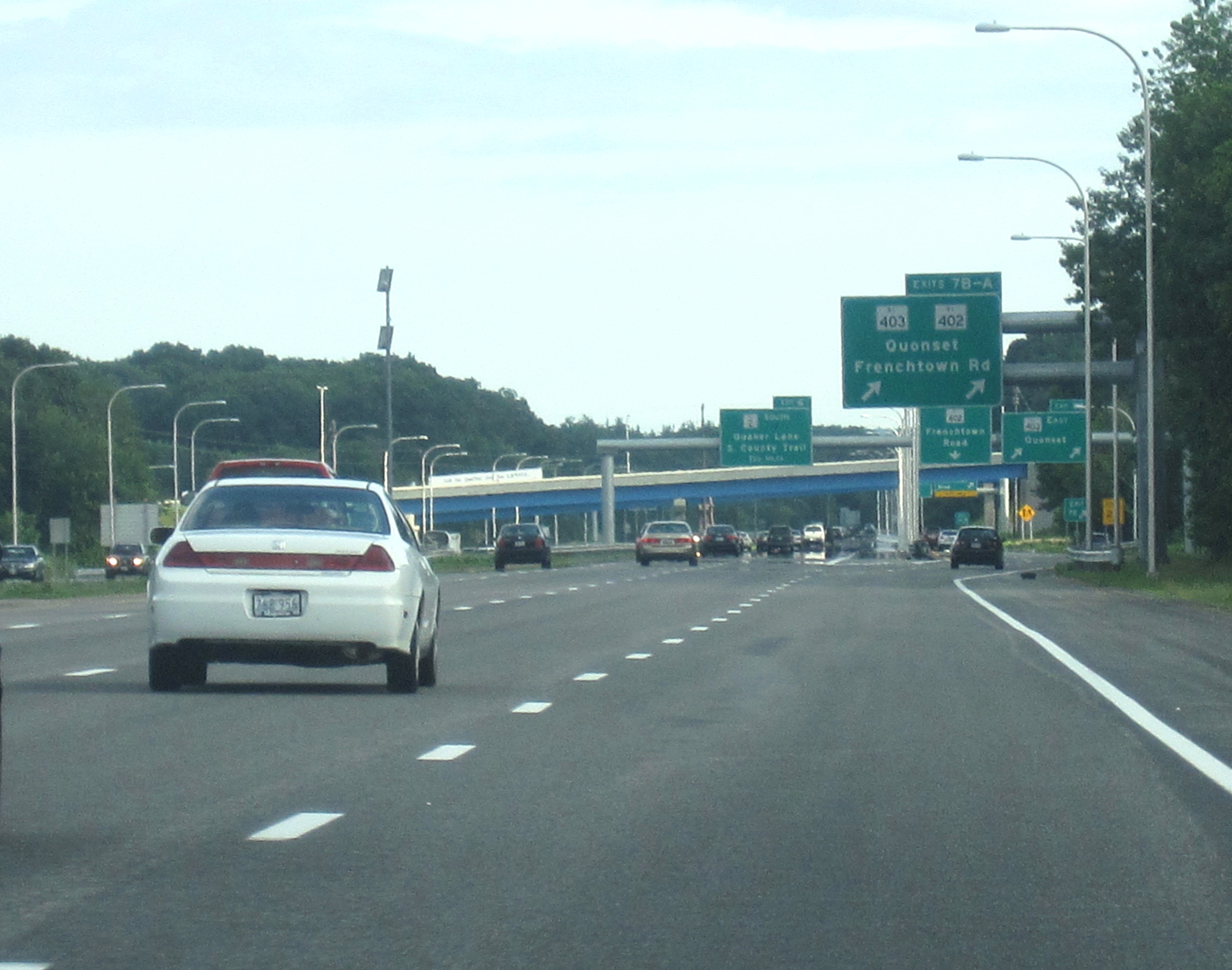 Exits 7B-A off Route 4 south in East Greenwich, serving Route 403 east (Quonset Freeway) and Route 402 (Frenchtown Road)